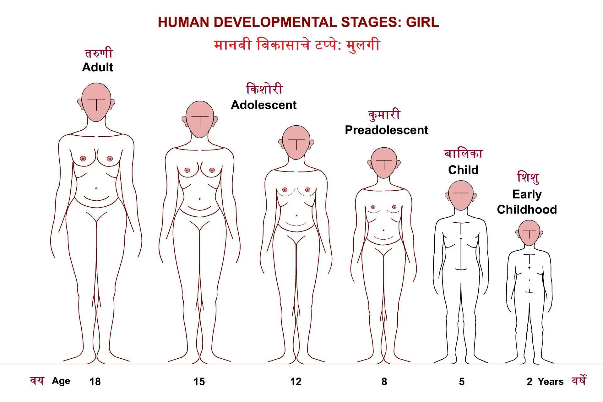 Representative figures of stages of development of a Girl from early childhood to adulthood.